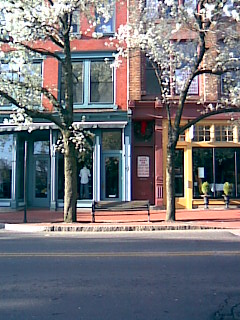 This is the view from the bus shelter across the street